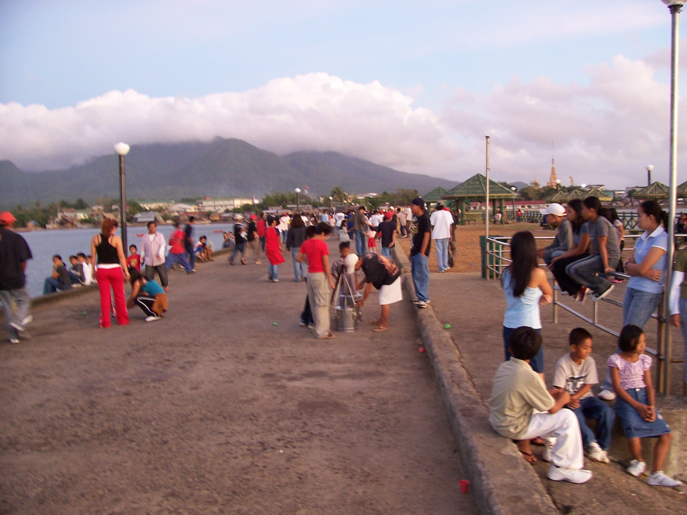 Note: Pier or Rempeolas is a favorite spot of the locals for a morning jog or to enjoy the sun rise.